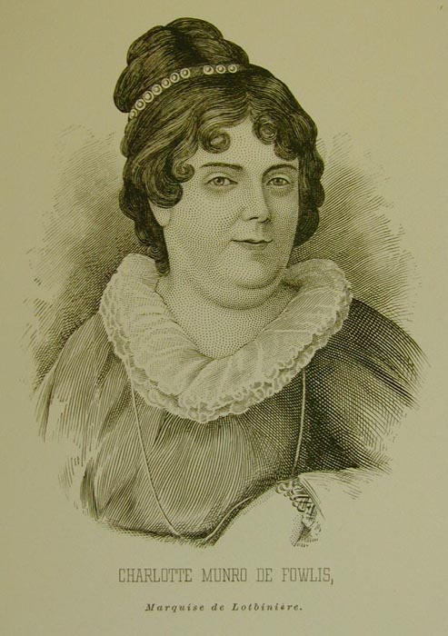 Charlotte Munro de Fowlis, afterwards Mme de Lotbiniere